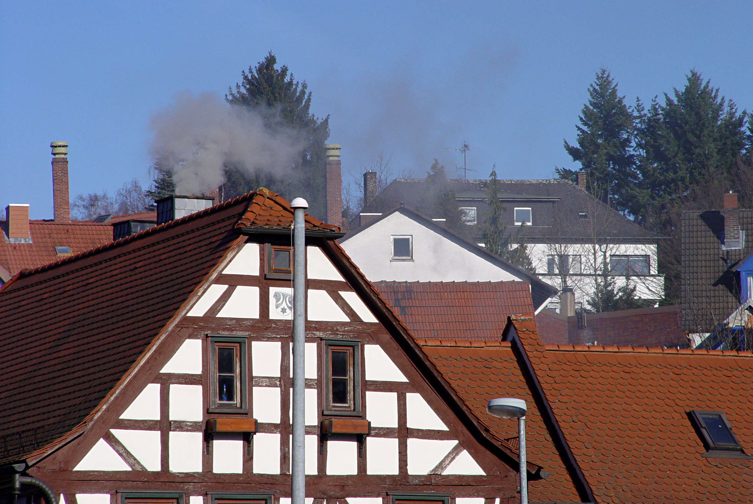 In Aschaffenburg-Schweinheim it is common to heat with wood as it is seen here.